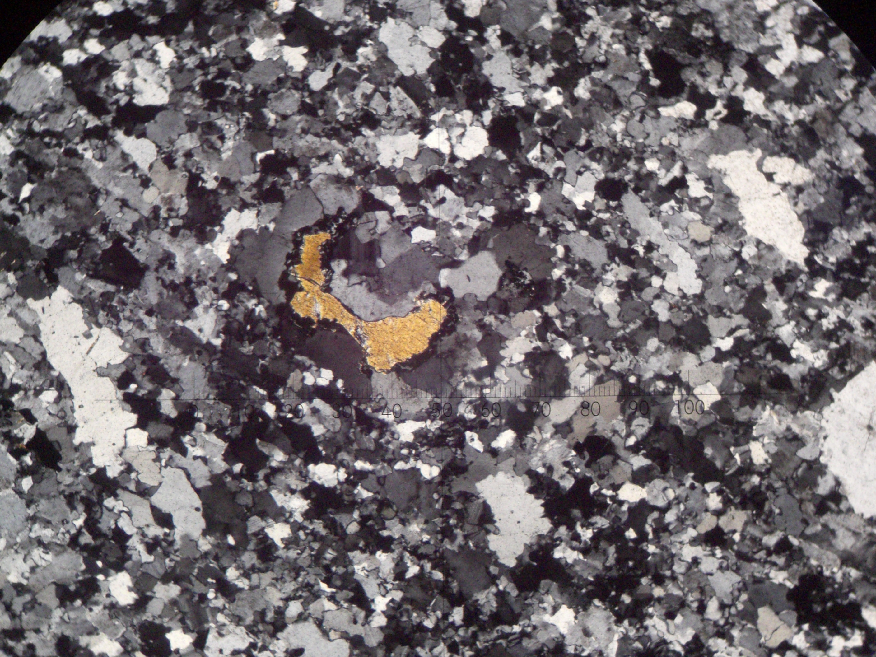 Metamorphic rock Granulite in microscope. Two nicols.